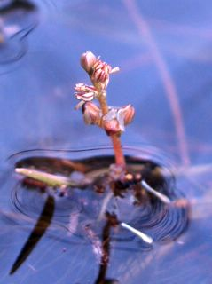 Yu Ito (2012) Aquatic plant surveys in the Mediterranean. Bulletin of Water Plant Society, Japan 97: 38-42.